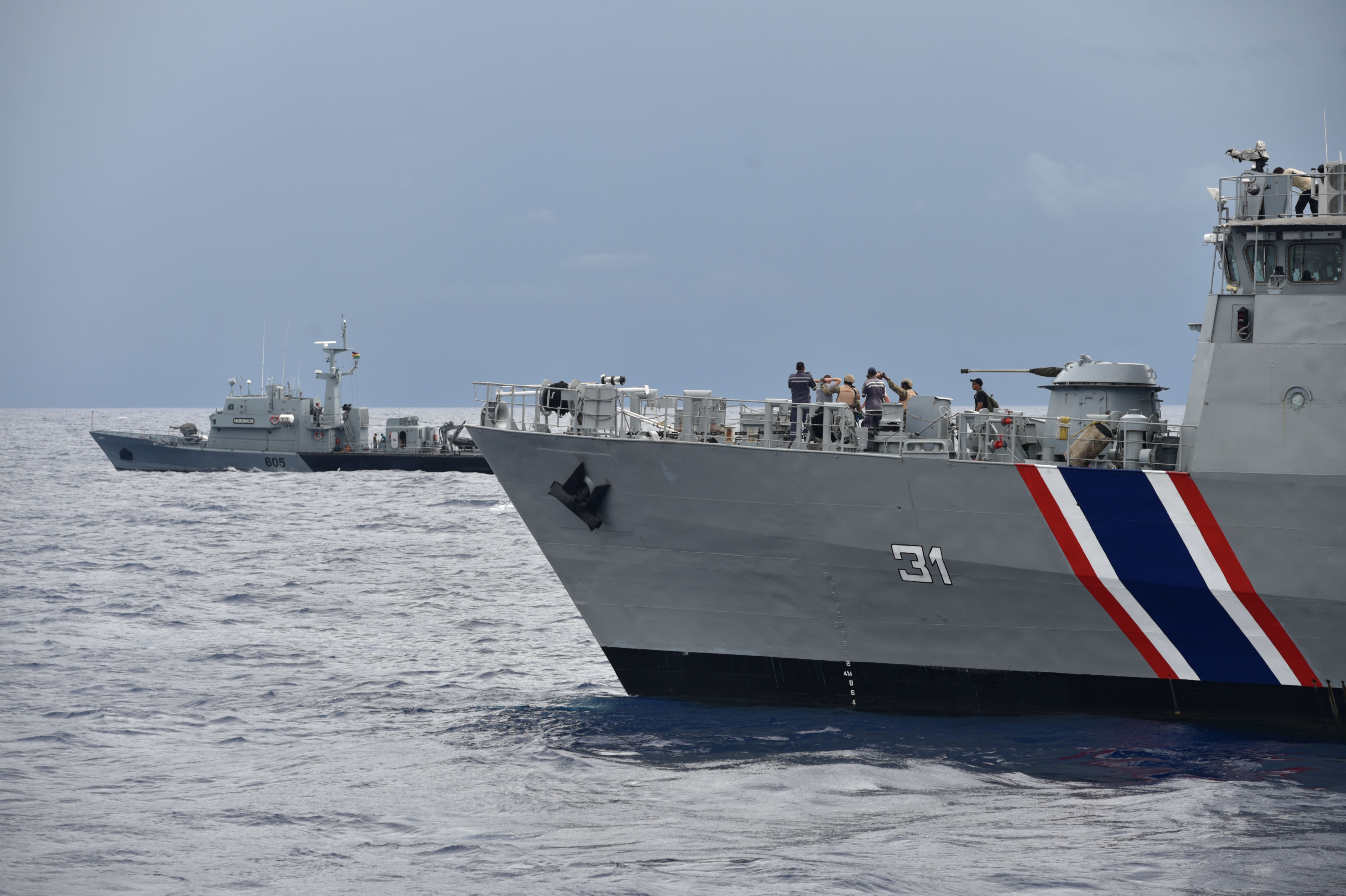 170204-N-XT273-467 PORT LOUIS, Mauritius (Feb. 04, 2017) Seychelles Special Forces and Dutch Marines participate in an Exercise Cutlass Express 2017 visit, board, search and seizure training scenario aboard Coast Guard ship Barracuda (CG 31) Feb. 04, 2017. Exercise Cutlass Express 2017, sponsored by U.S. Africa Command and conducted by U.S. Naval Forces Africa, is designed to assess and improve combined maritime law enforcement capacity and promote national and regional security in East Africa. (U.S. Navy photo by Mass Communication Specialist 1st Class Justin Stumberg/Released)